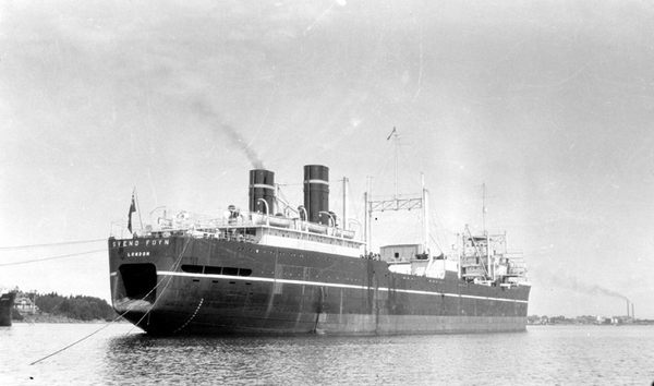 A/S Sydhavet's whaling factory "Svend Foyn" (1931)